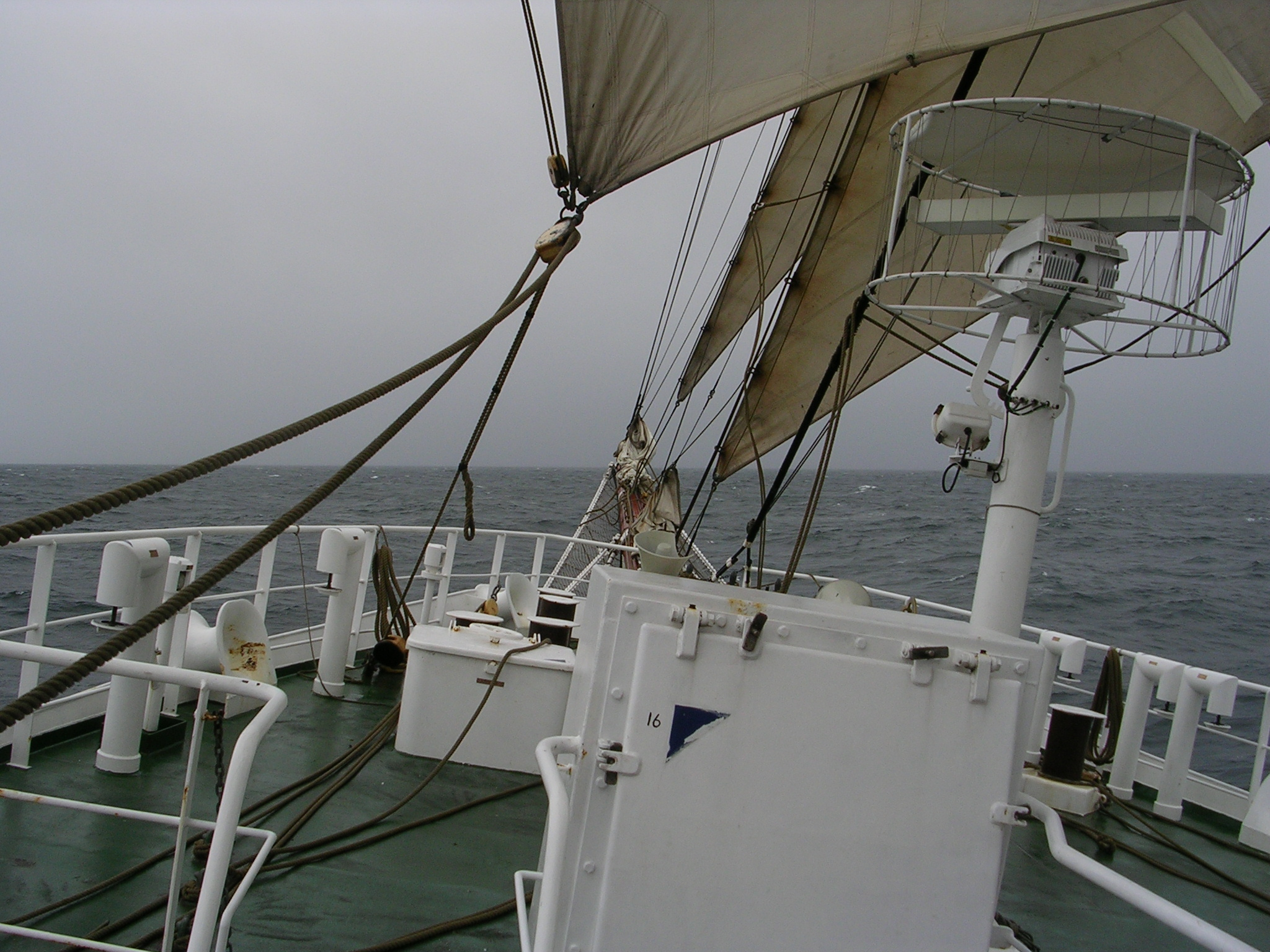 Prince Williams fo'c'sle, close-hauled while crossing the North Sea. Outer jib and fore-topmast-staysail are set; the tack of the fore-course is secured middle-left. The fo'c'sle on Prince William is one level above the main deck; the break in the guardrails to the left of the ventilator (with the blue triangle) is for steps down to the deck. Photo by Pete Verdon